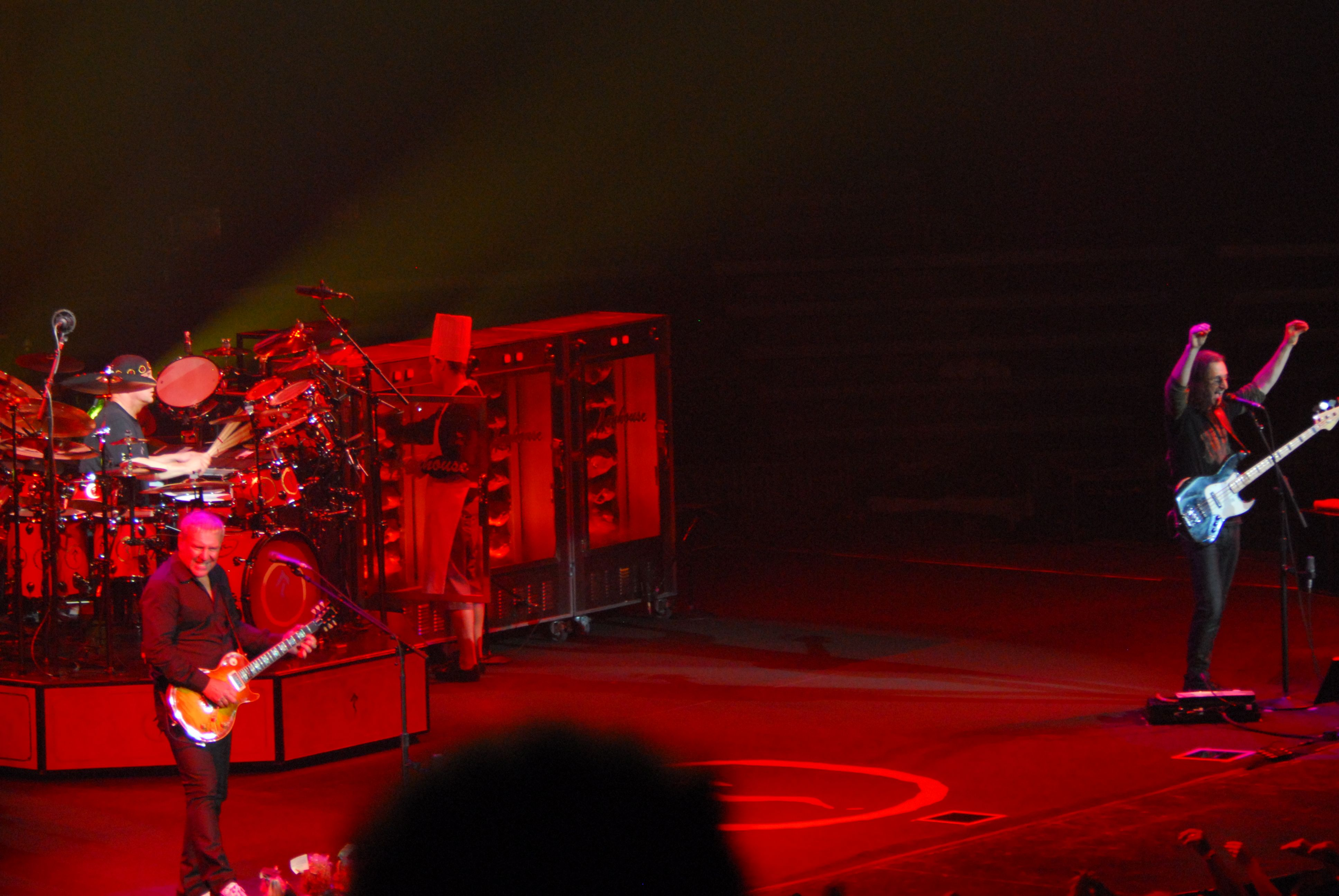 Rush on the Snakes & Arrows tour in Ottawa, ONT, Canada